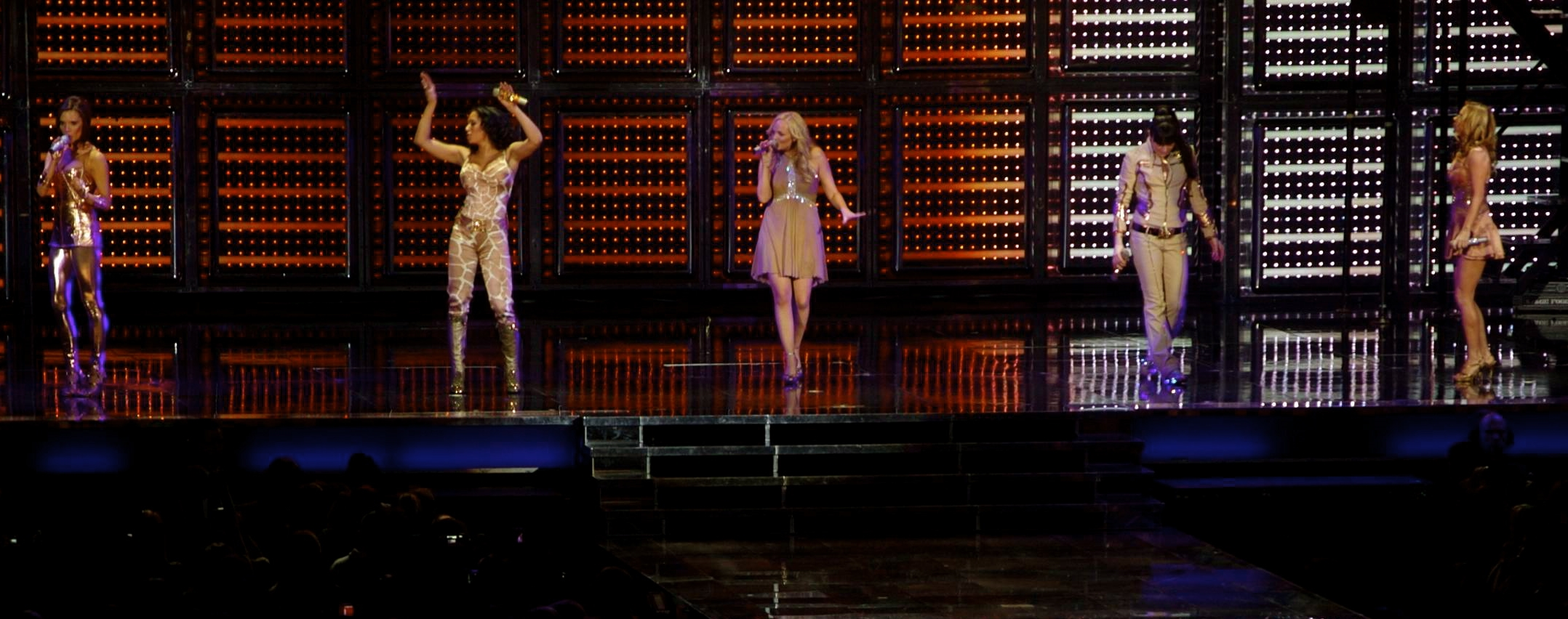 The Spice Girls in concert in Toronto